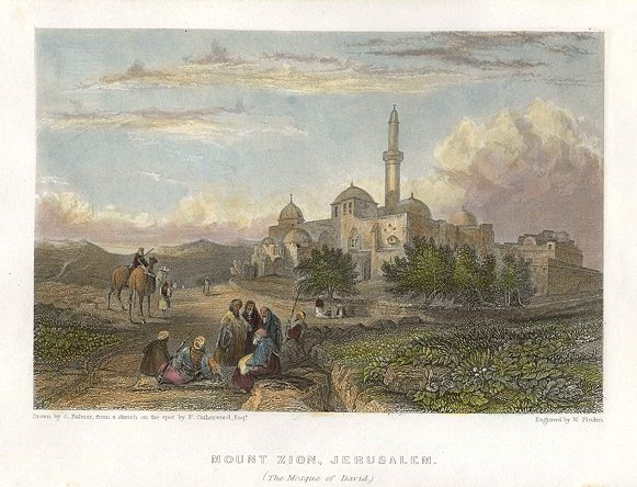 Mount Zion, Jerusalem, the Mosque of David Holy Land. Original steel engraving drawn by G. Balmar, after a sketch by F. Catherword, engraved by W. Finden, 1836.